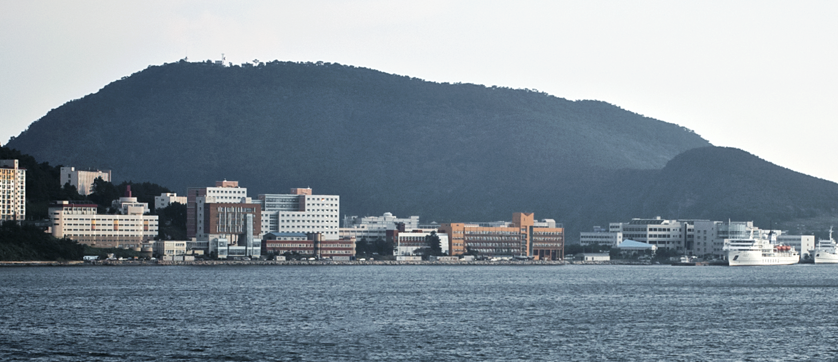 Korea Maritime University in Busan, South Korea. Part of a photograph from Flickr; author ecodallaluna; license of CC BY-SA 2.0. This is a part of the original photograph, plus additional changes (lighting, cropping, etc.).